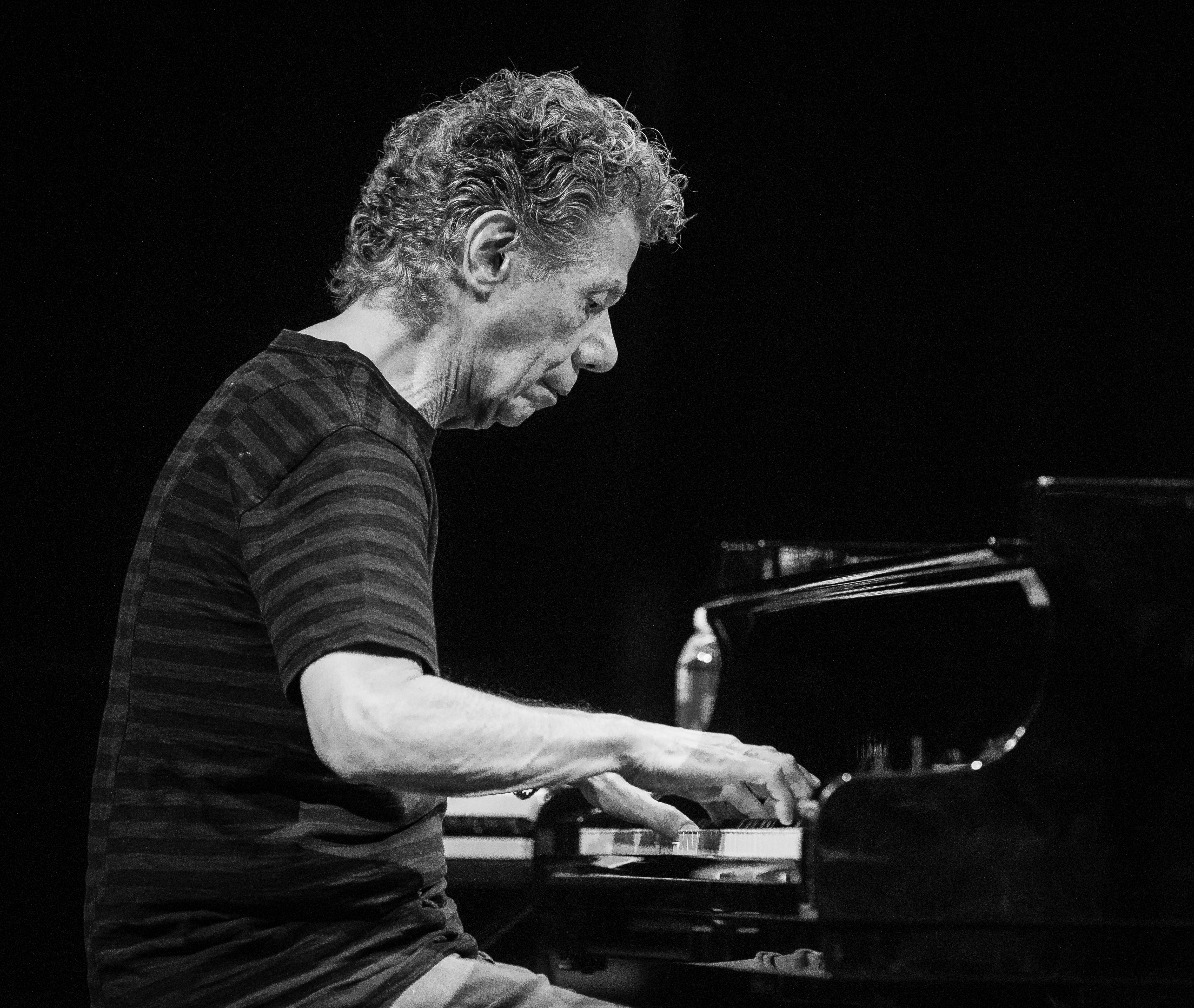 Chick Corea with Chick Corea's Akoustic Band in Kongsberg Musikkteater. The concert was part of Kongsberg Jazzfestival and took place on 06. July 2018 in Kongsberg. Lineup: Chick Corea (piano) John Patitucci (double bass) Dave Weckl (drums) Guest apperance: Marius Neset (saxophone)